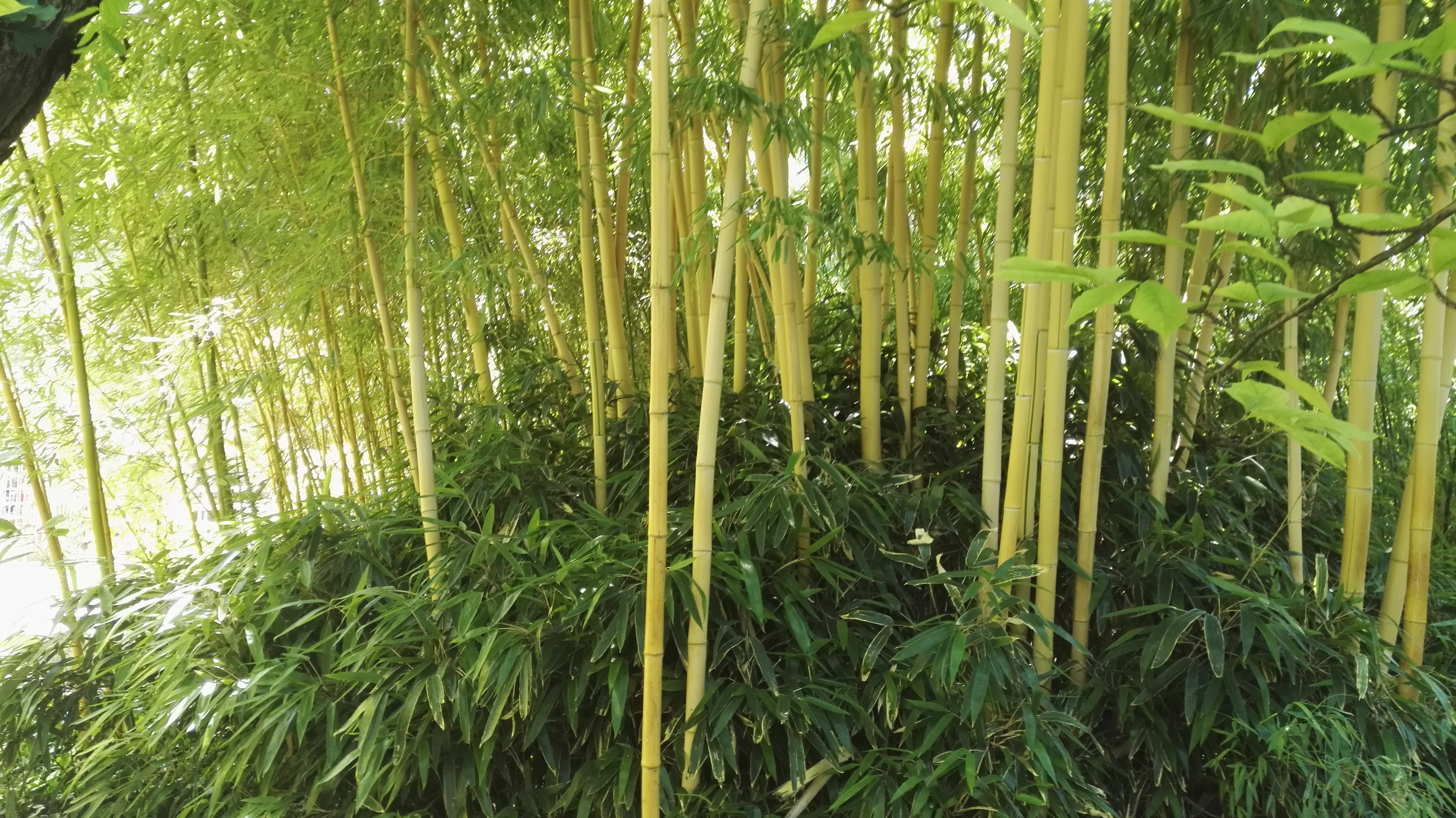 Bamboo grove at ELTE Botanical Gardens